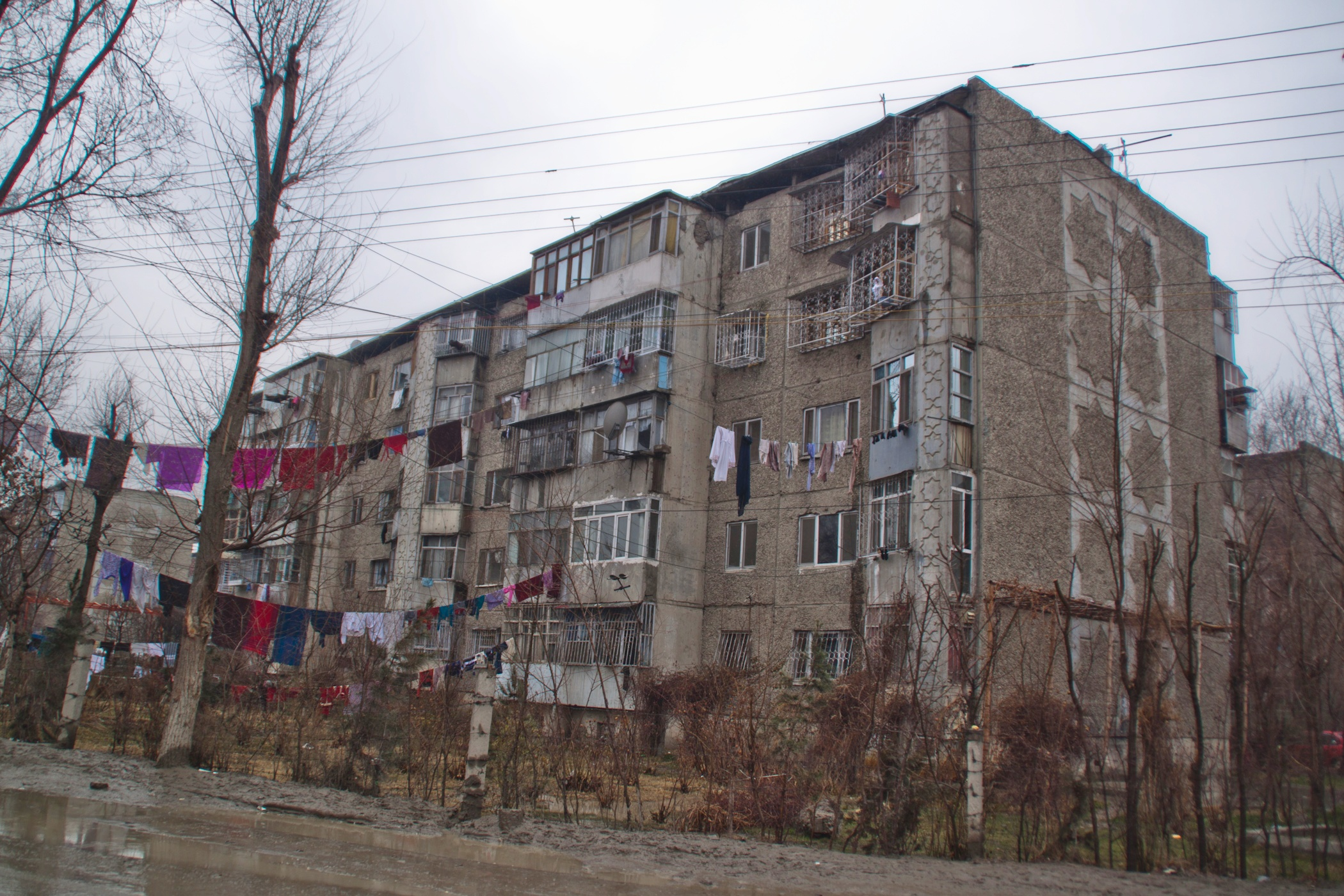 Ironically the most prestigious place to live in Kabul is the sturdy old Soviet constructions (pretty much identical to the one I grew up in.)